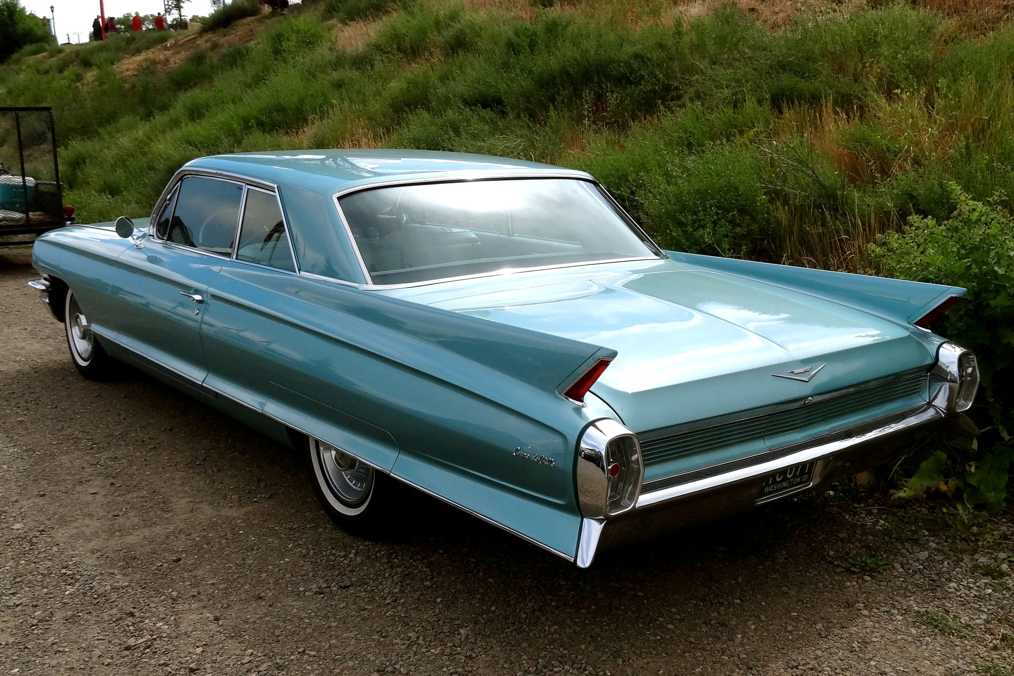 This is a picture of a vehicle (name of it is on the file name).